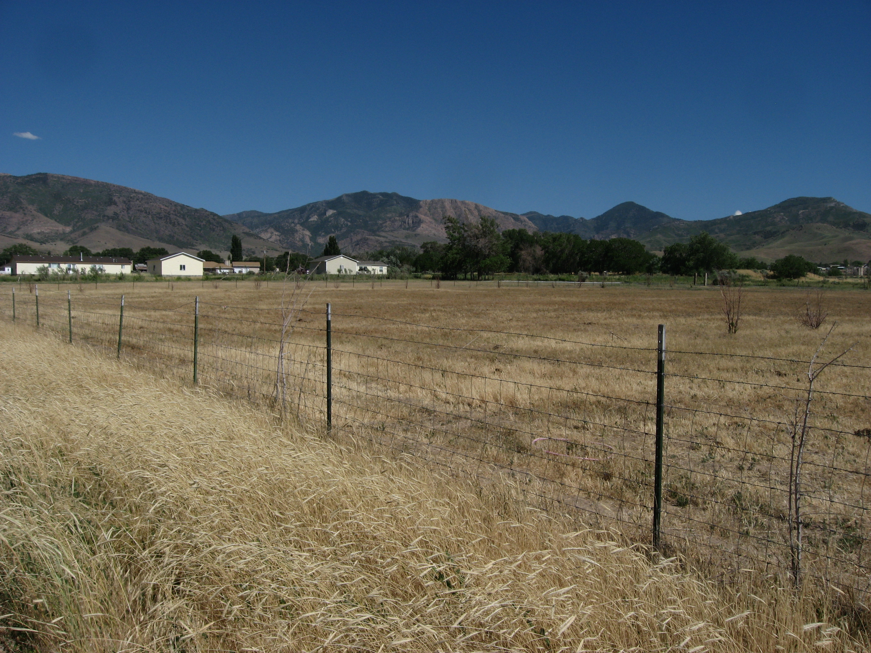 Oak City is a town in Millard County, Utah, United States.